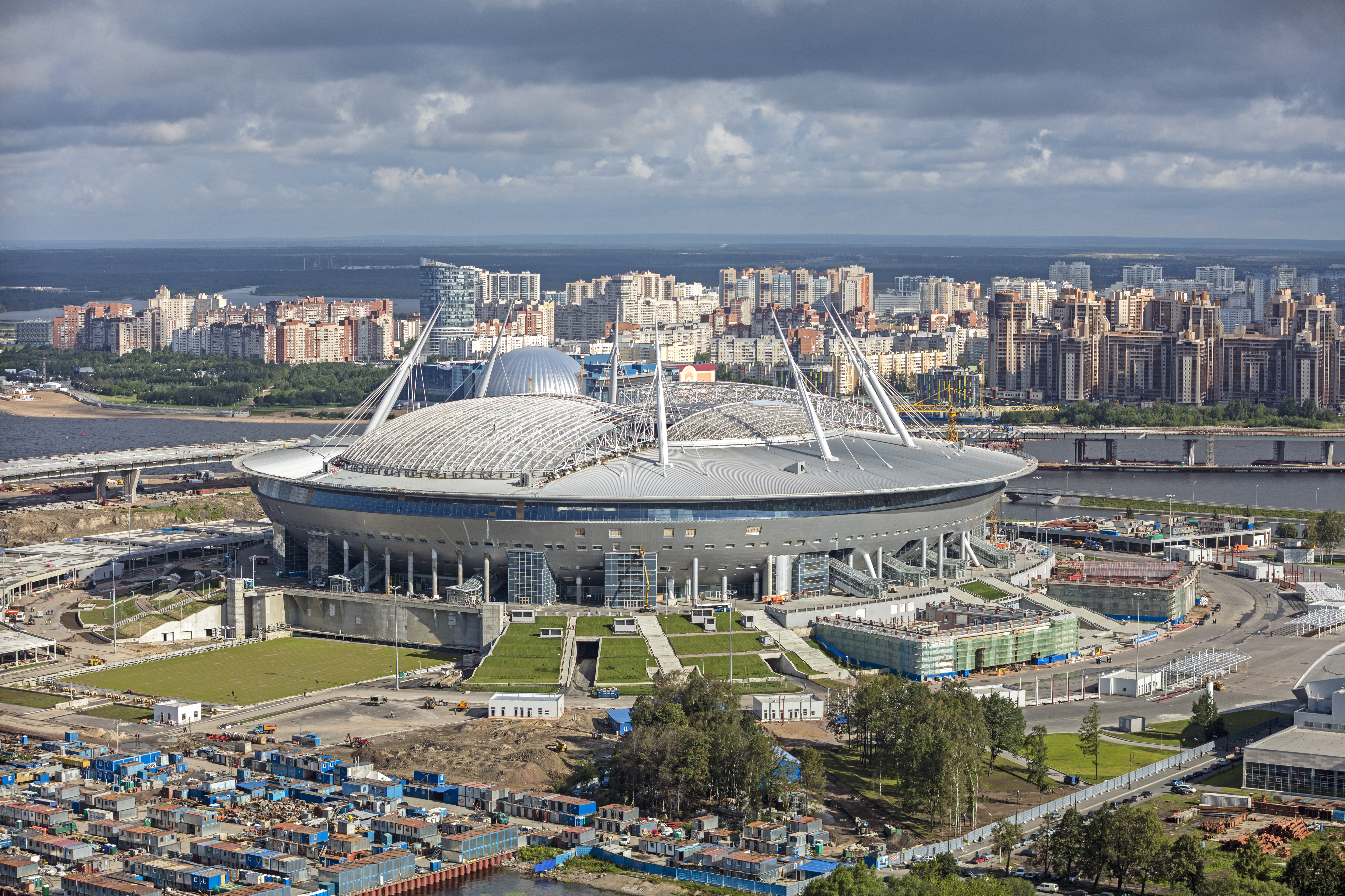 The Krestovsky Stadium, Krestovsky Island, Saint Petersburg, Russia.